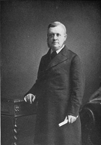 Picture of Dr. Henry Reed Stiles from his book on the Stiles family history.